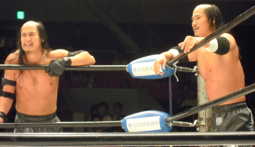 Japanese professional wrestlers team,Brahman Brothers.Jul 30 2010 BJW Korakuen Hall.